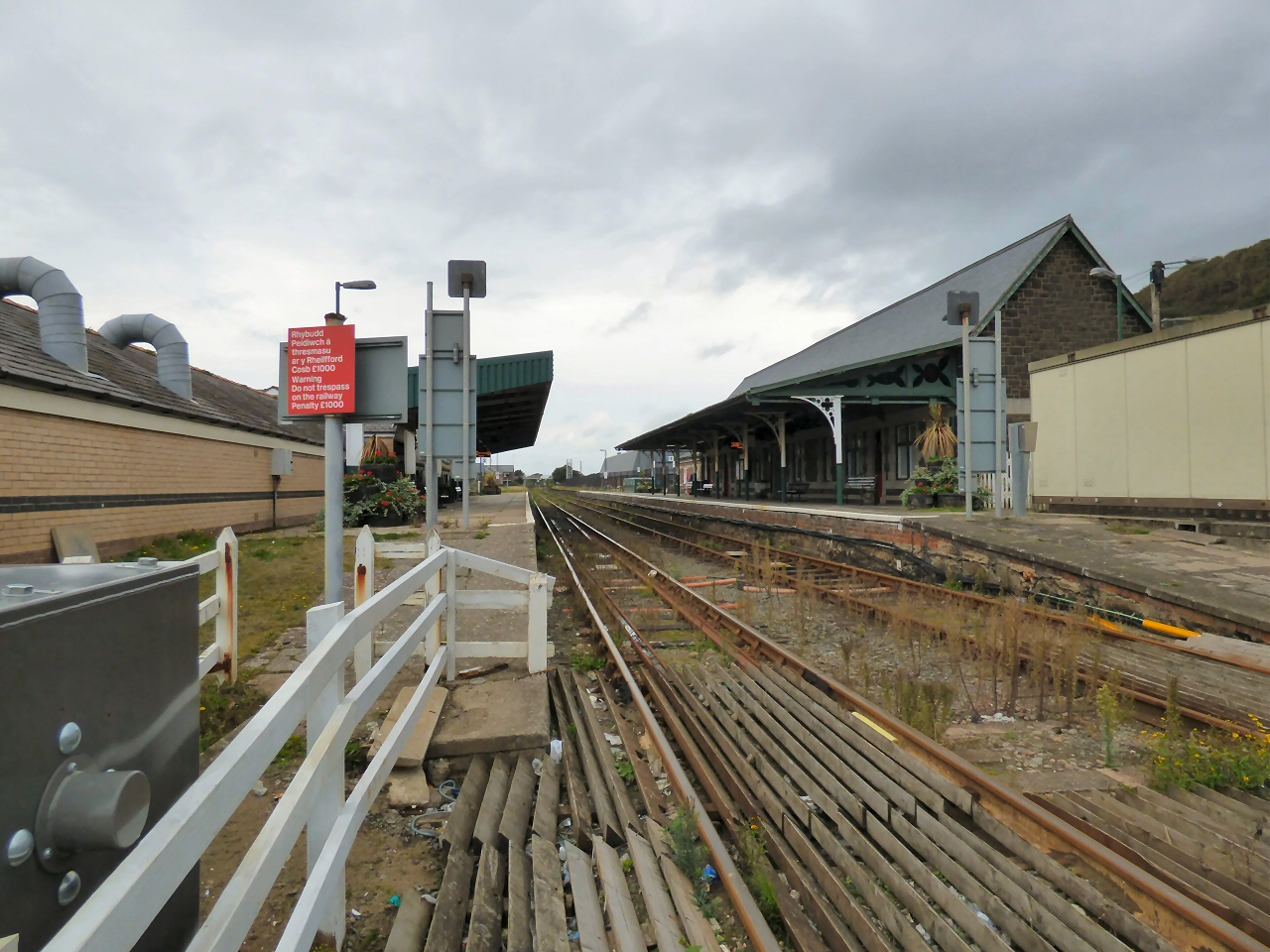 Barmouth Station